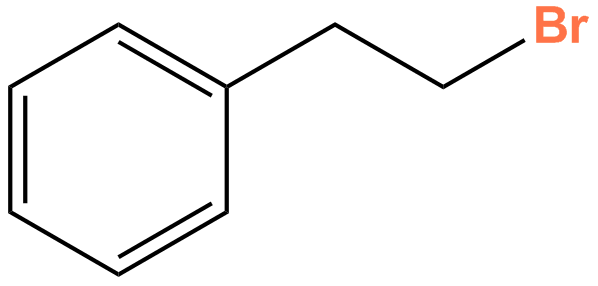 PhCH2CH2Br